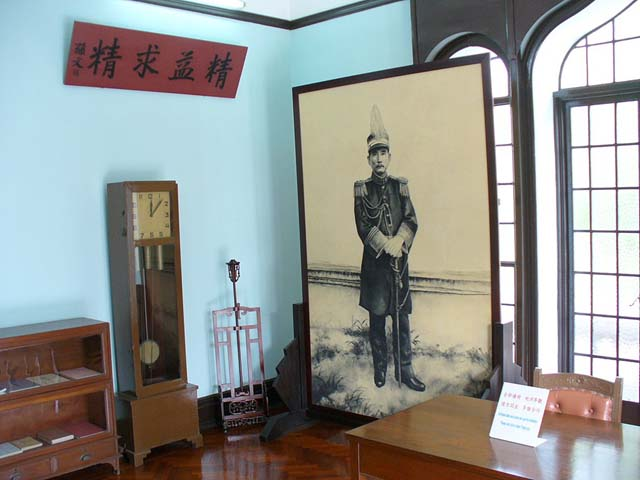 Sun Yat Sen Memorial House at Av. Sidonio Pais, Macau.